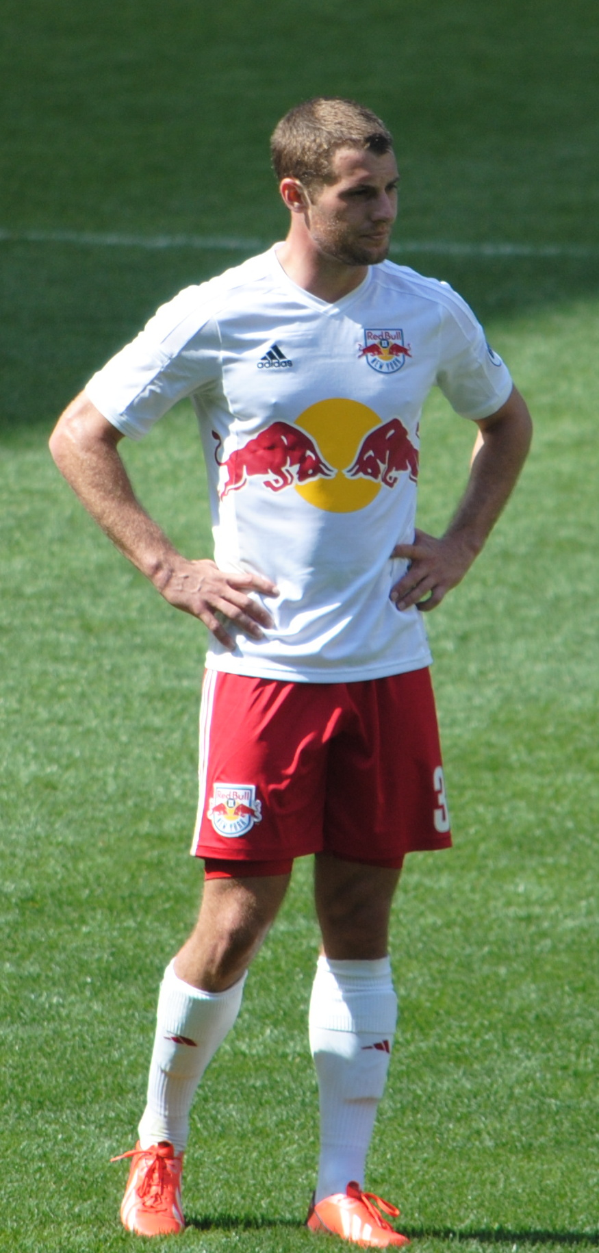 McClaws